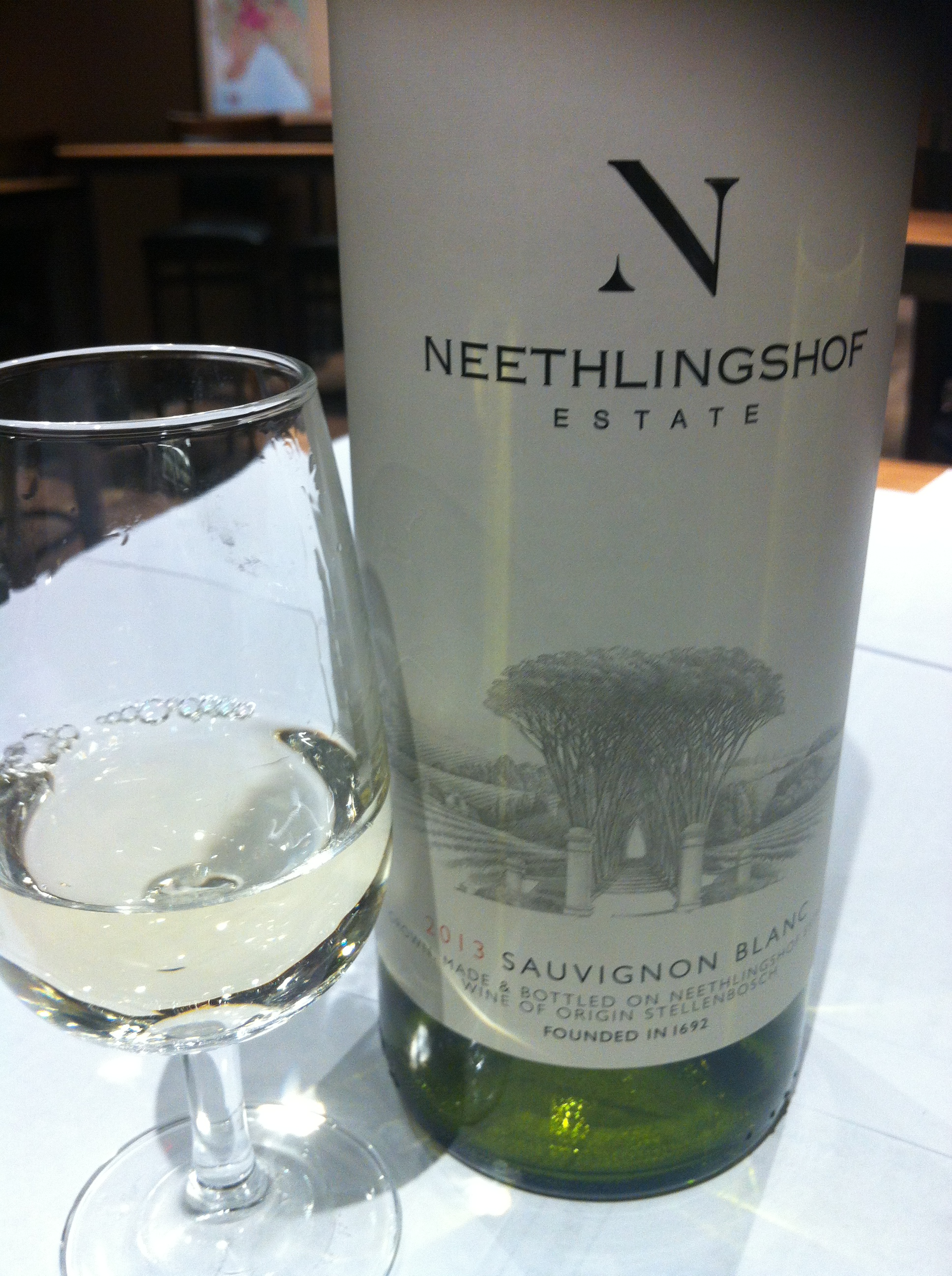 South African Sauvignon blanc from the Stellenbosch wine region